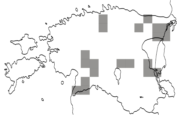 Menegazzia terebrata. Distribution in Estonia 2011.